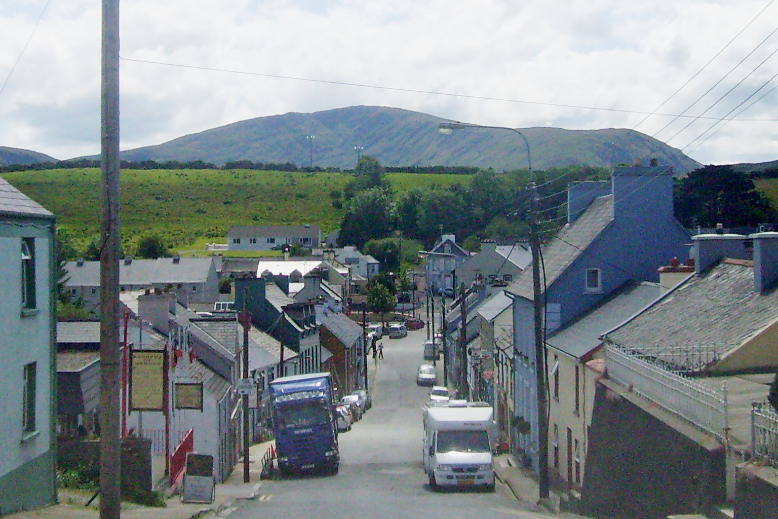 Ardara Main Street, Co. Donegal, IrelandGaeilge: Príomhshráid Ard an Rátha, Co. Dhún na nGall, Éire